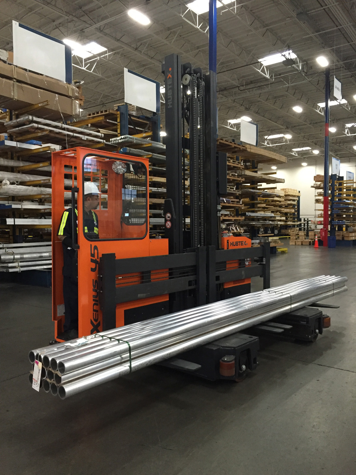 HUBTEX Electric Multidirectional Sideloader